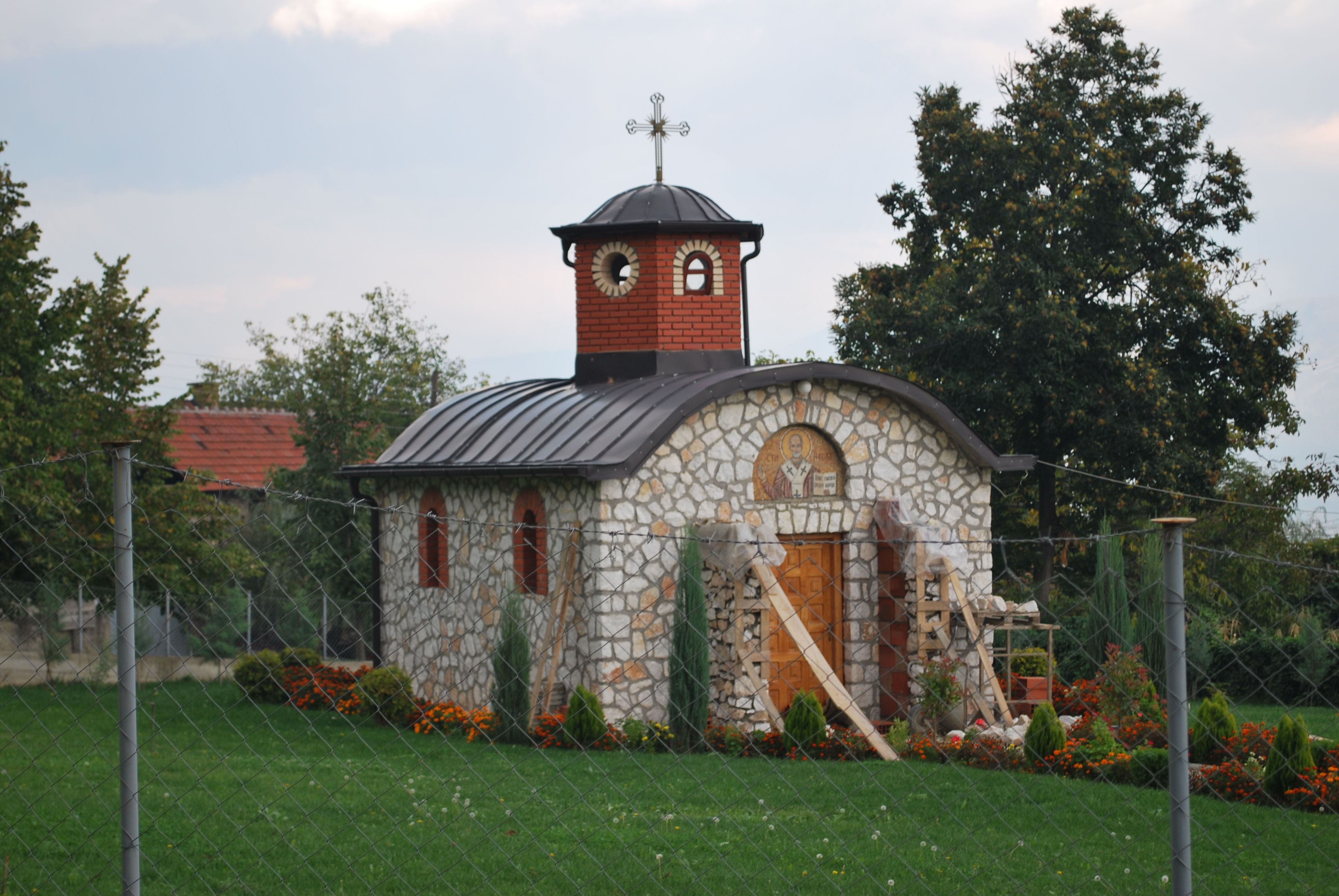 St. Nicholas Church in Lešok, Macedonia